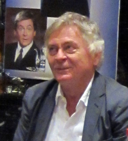 Actor Daniel Davis at a Star Trek convention in Las Vegas.